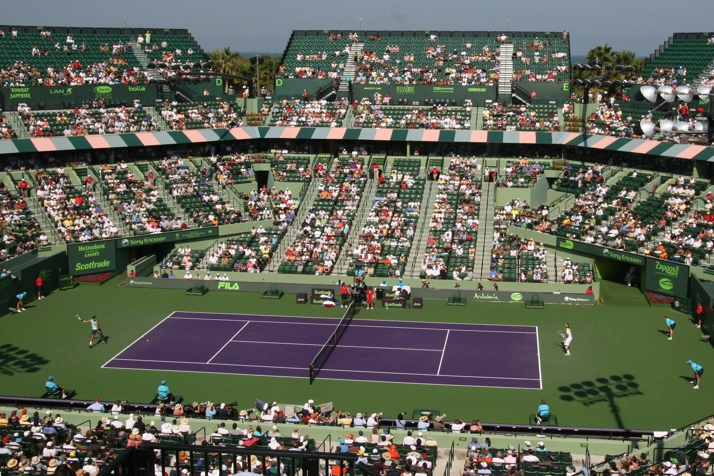 Match underway between Juan Martín del Potro and Rafael Nadal during 2009 Sony Ericsson Open at Tennis Center at Crandon Park, Key Biscayne, Florida, United States.